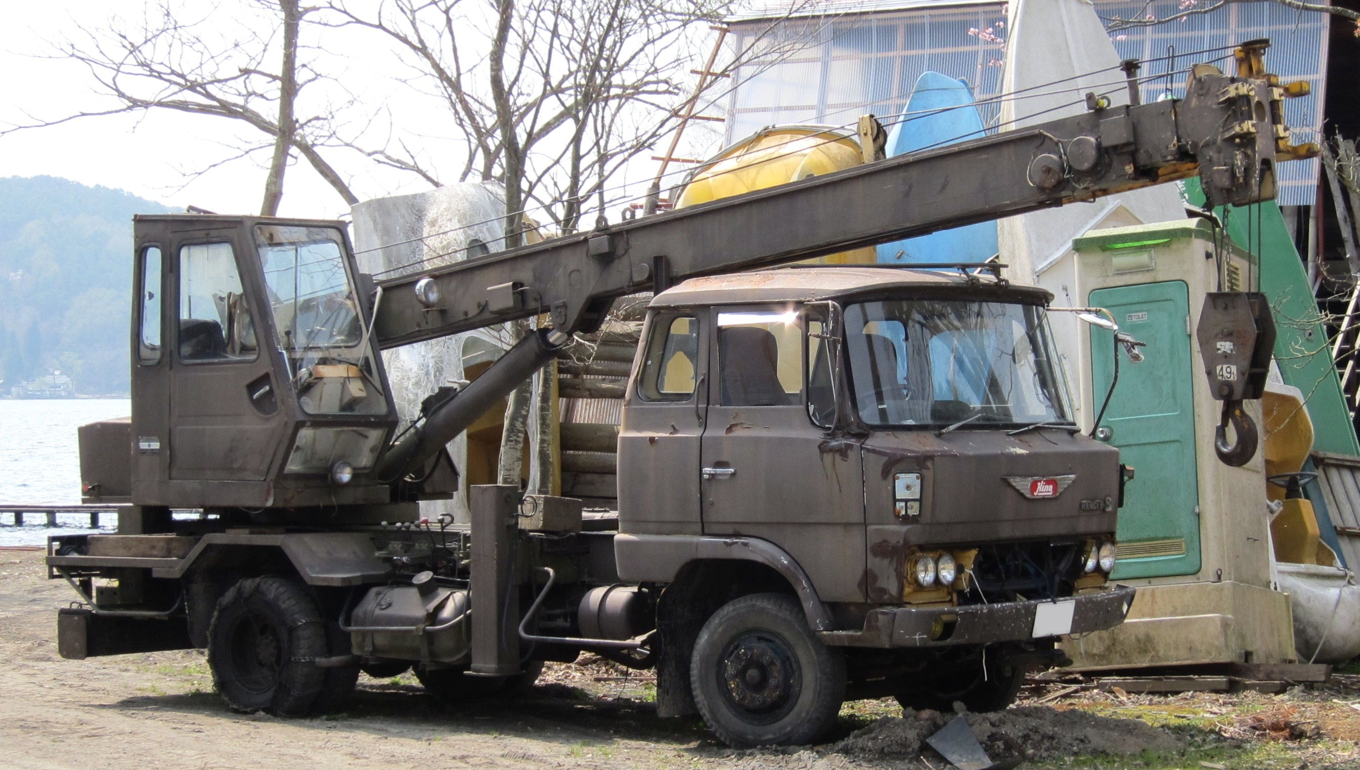 Hino Ranger